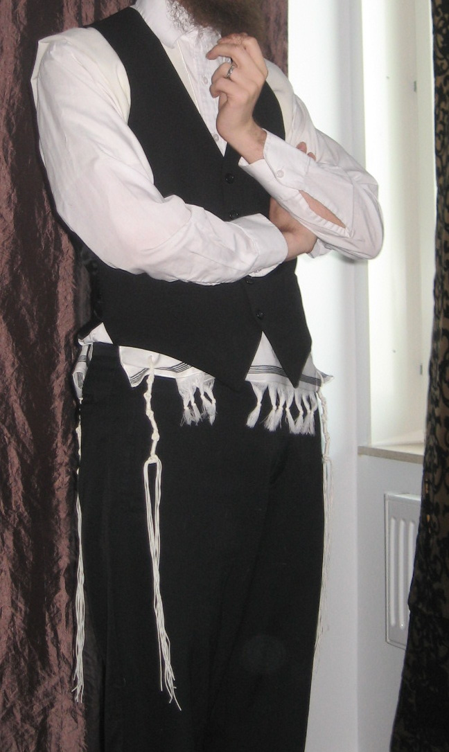 Tallis katan worn in one of many ways (Under vest but over shirt)